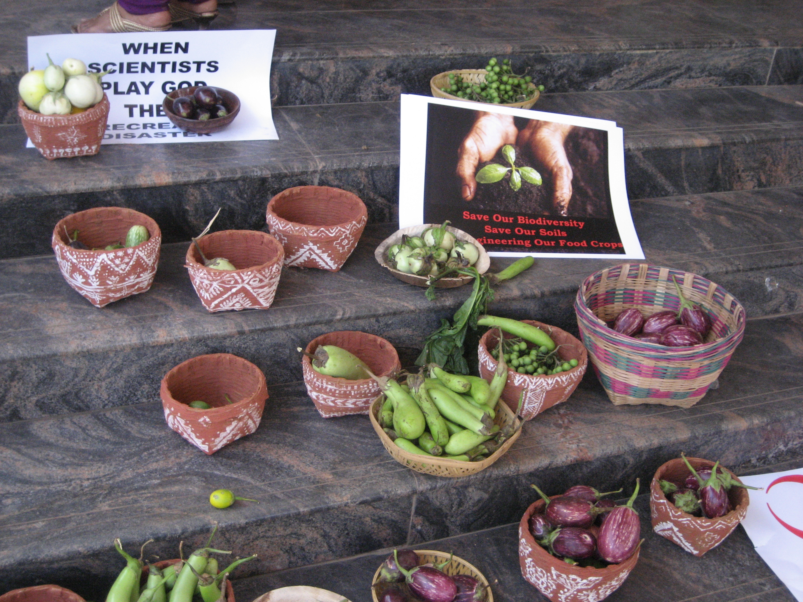 Baskets of many different kind of Brinjal (aka "Eggplant") put out by protesters during the listening tour of India's environment minister relating to the introduction of BT Brinjal. Spring 2010 in Bangalore, India.